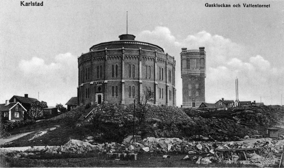 Gasklockan, byggd 1906 och riven 1968, samt det år 1912 byggda (byggnadsritningar signerade av förståndaren för gas- och Vattenverket i Karlstad civilingenjör Erik Björkman) och 1962 rivna vattentornet på Kvarnberget.